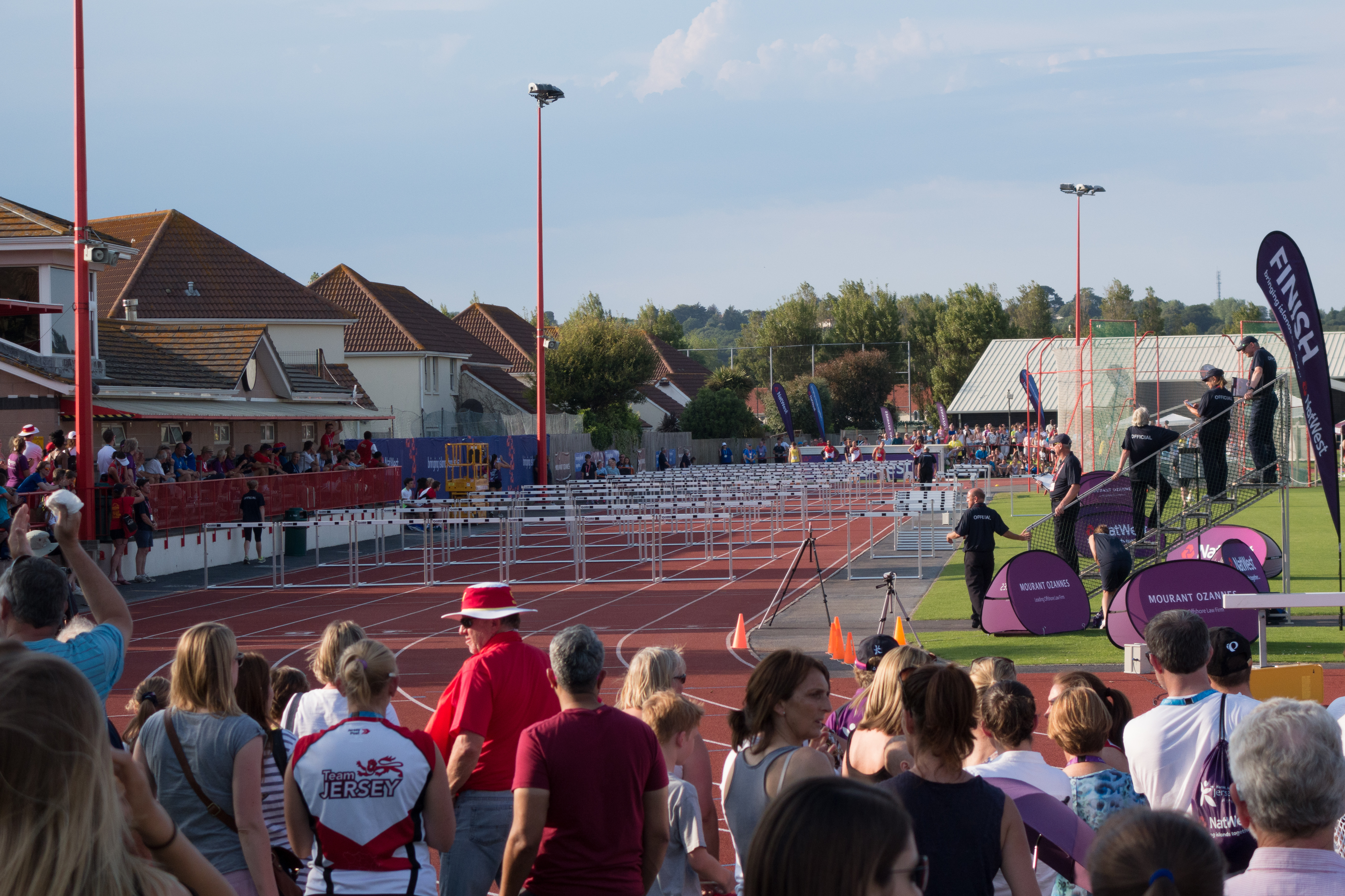 110m hurdles men finals at the 2015 Island Games. Photo taken just prior to the start of the race.